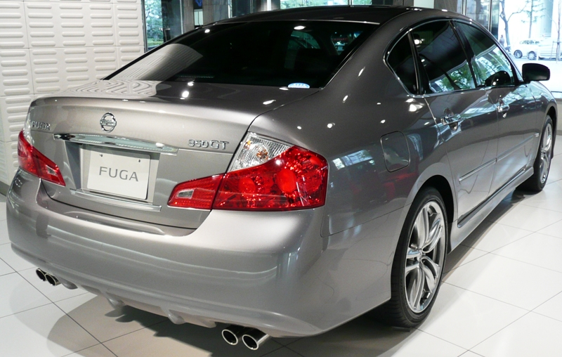 Nissan Fuga 350GT Type S rear.